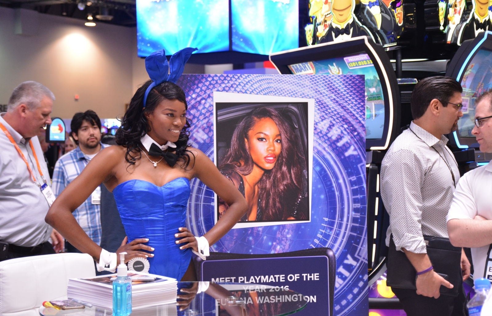 Eugena Washington at G2E 2016.